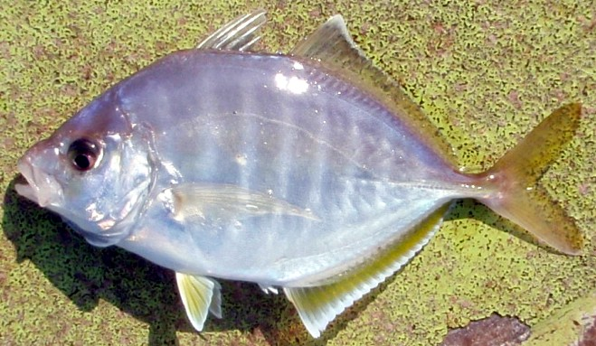 Carangoides equula from Taiwanese trawl 2002